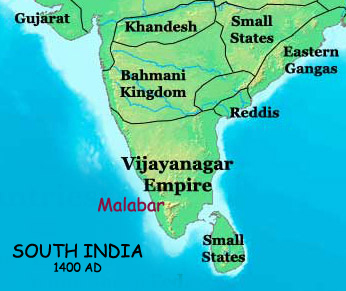 South India in AD 1400, created from Thomas Lessman's free domain material